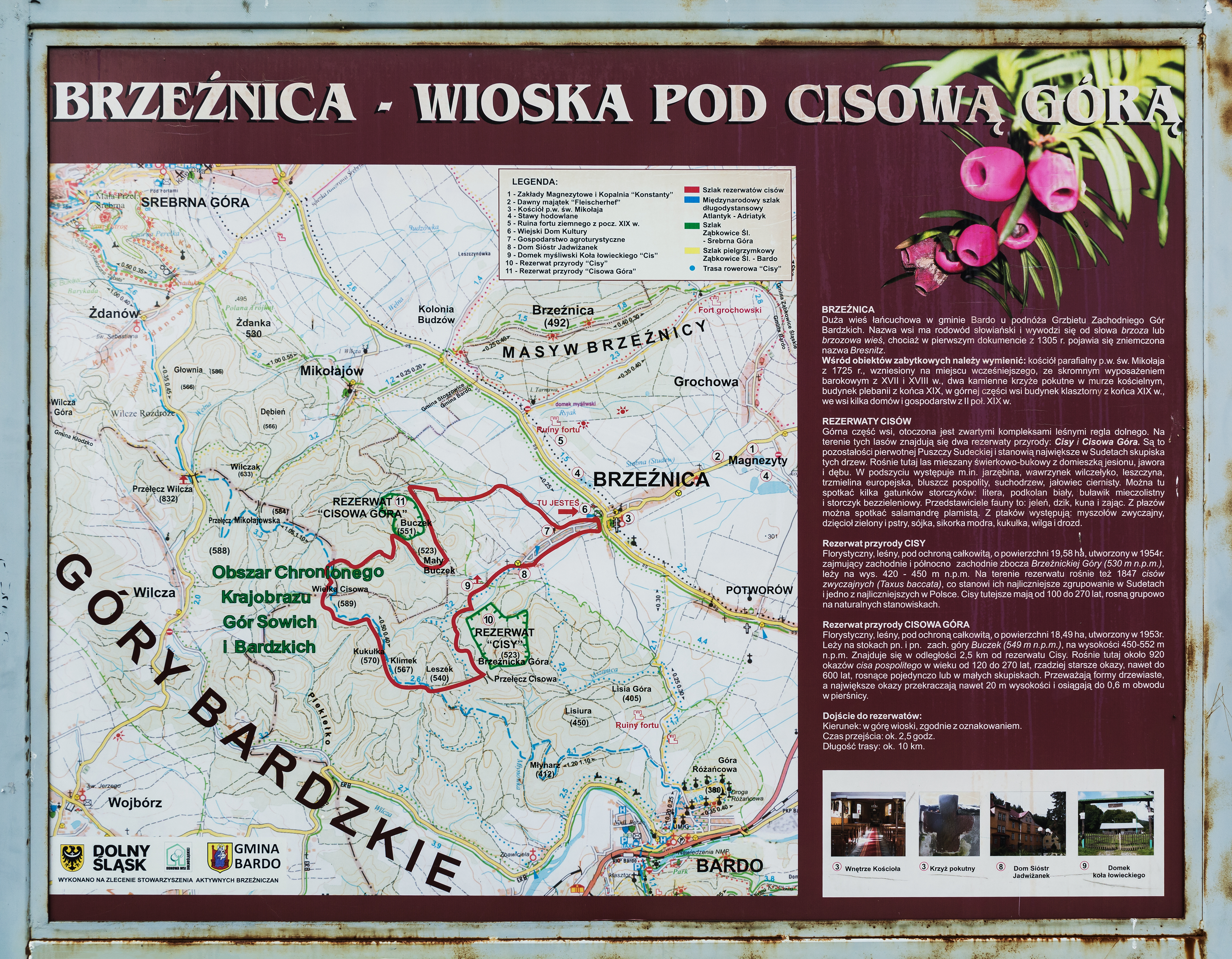 Information board in Brzeźnica.